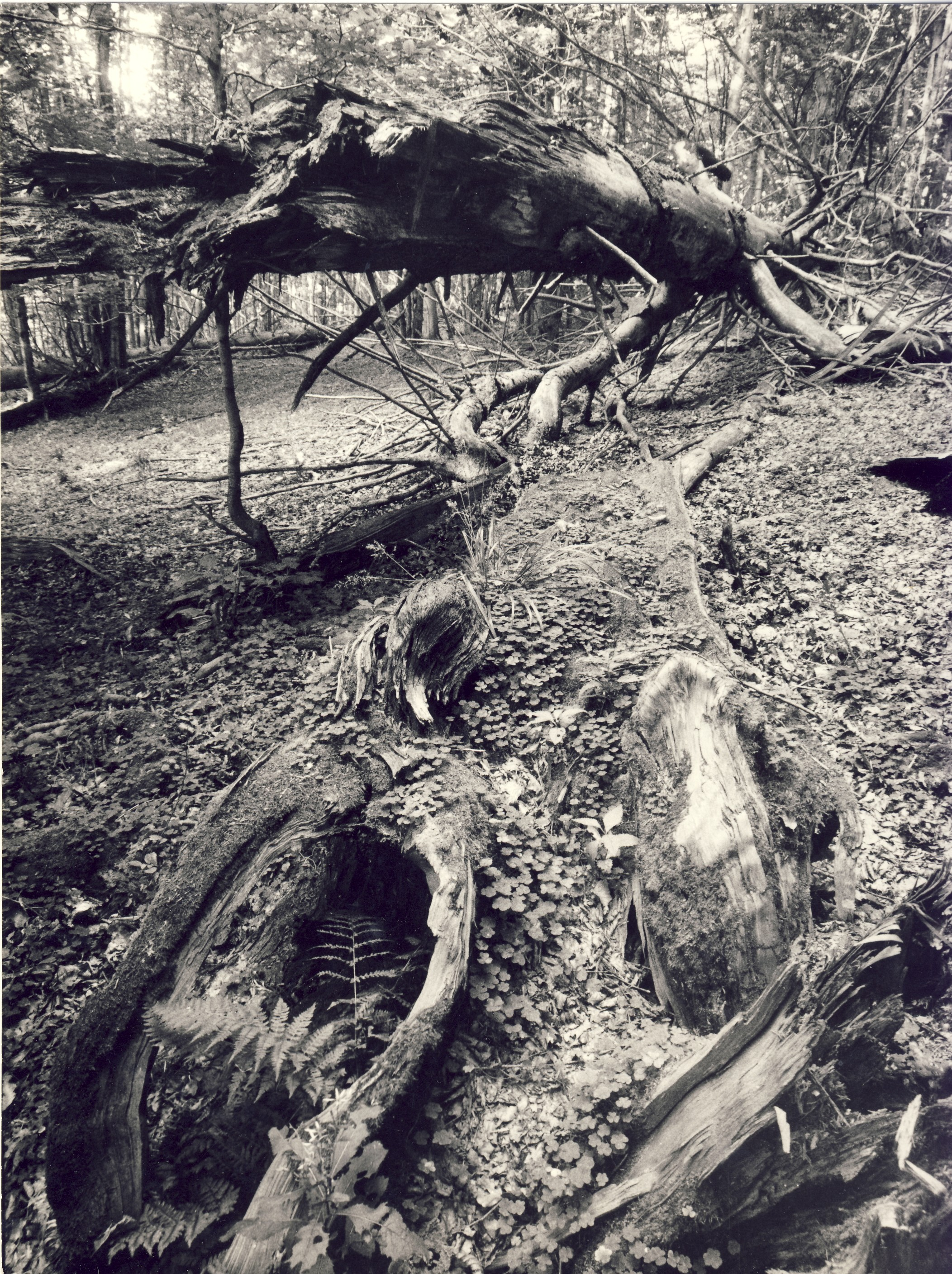 Jan Byrtus, Prales_Mionší